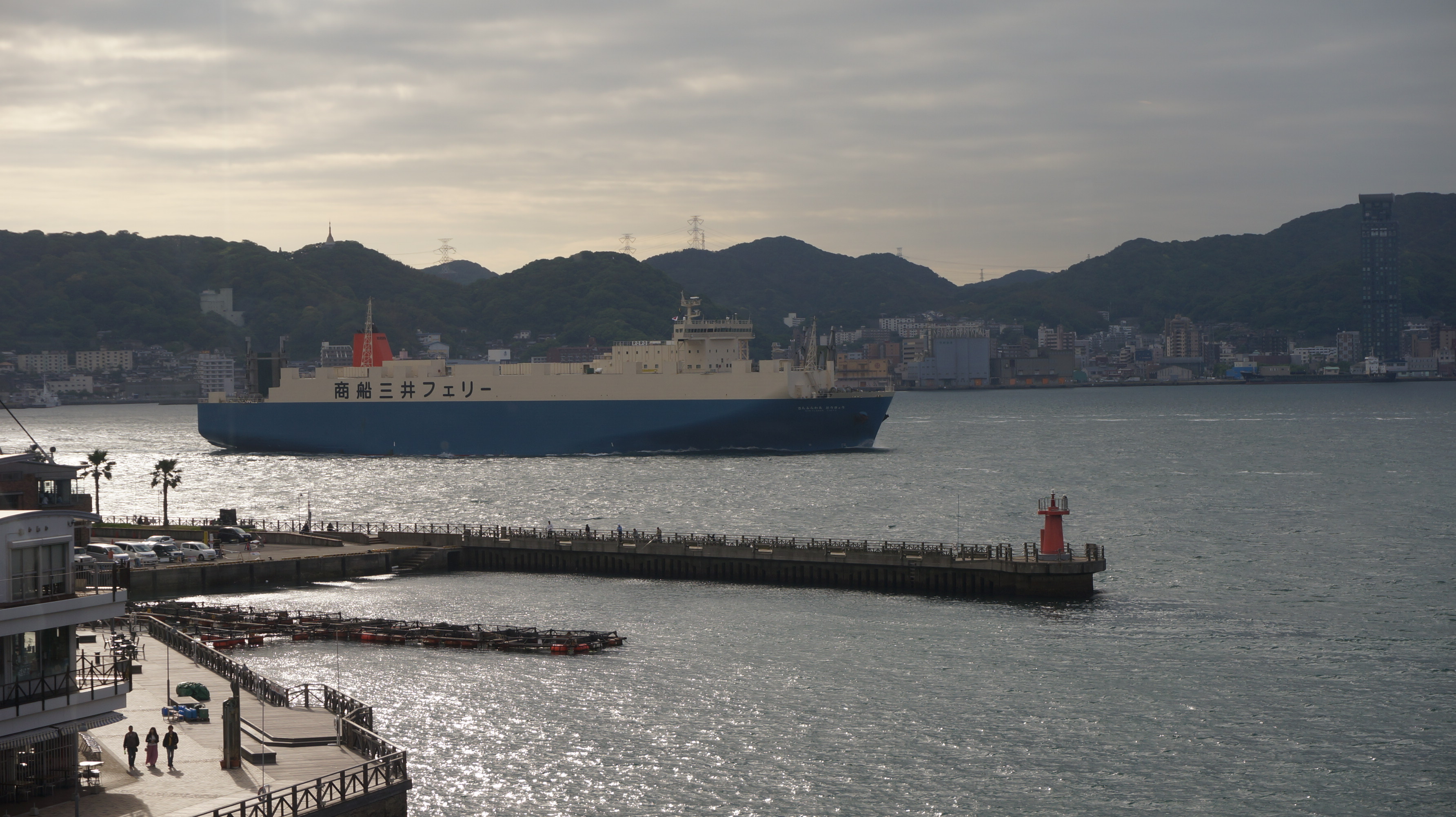 Ro-Ro cargo ship SUNFLOWER TOKYO(IMO 9284221) in Kanmon Straits. The gross tonnage is 10,503t.